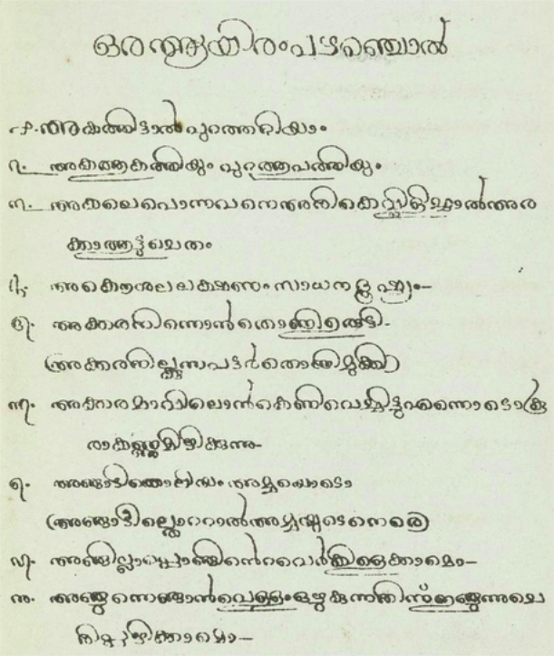 Ora_Ayiram_Pazhanchol page